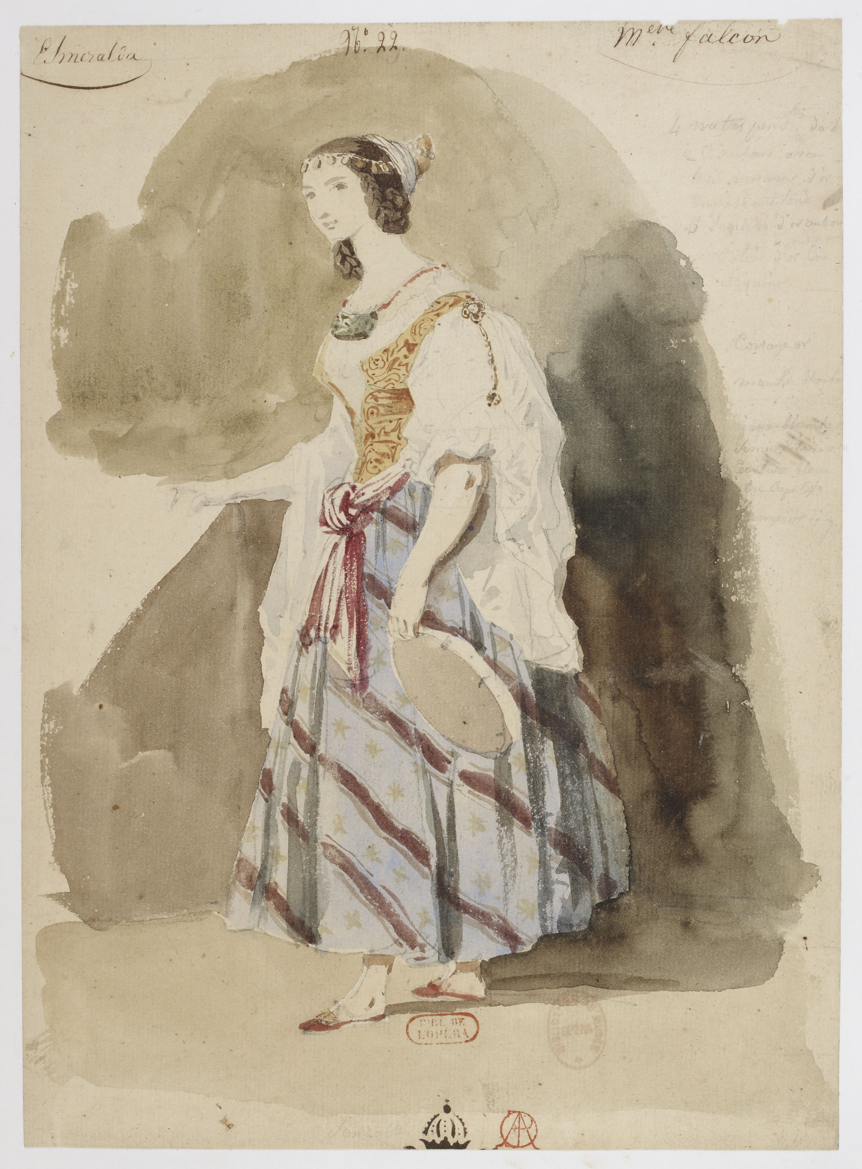 Costume design by Louis Boulanger for Cornélie Falcon in the title role of the opera La Esmeralda by Louise Bertin